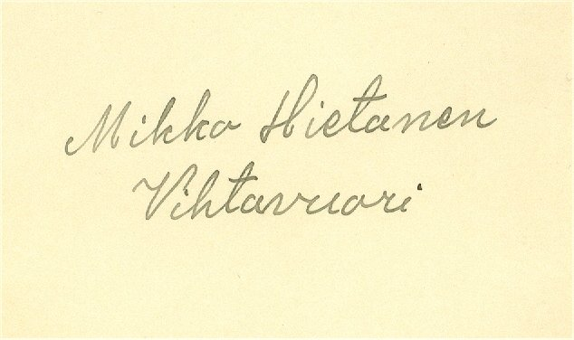 Signature of Finnish runner Mikko Hietanen